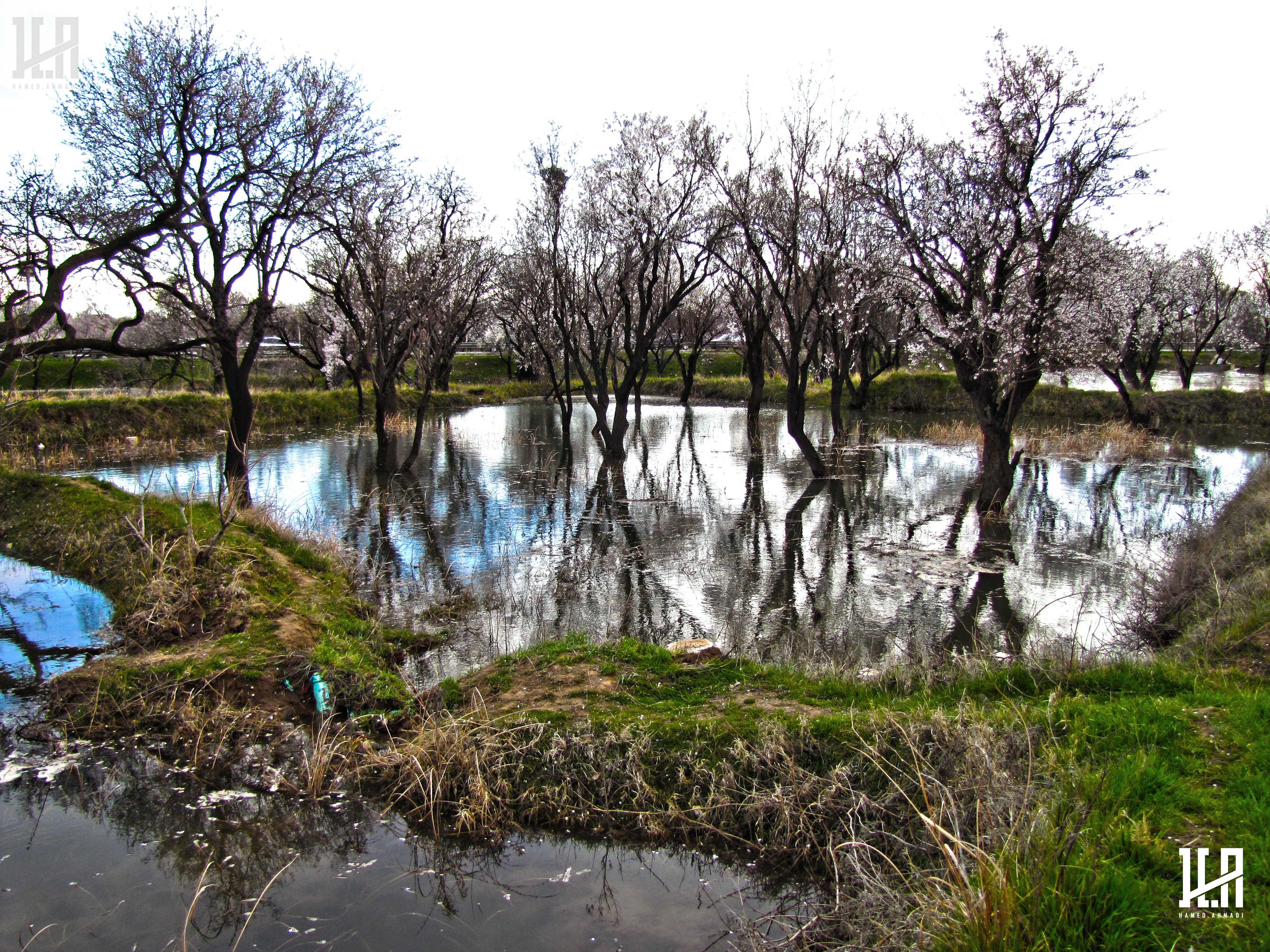 Qazvin traditional gardens